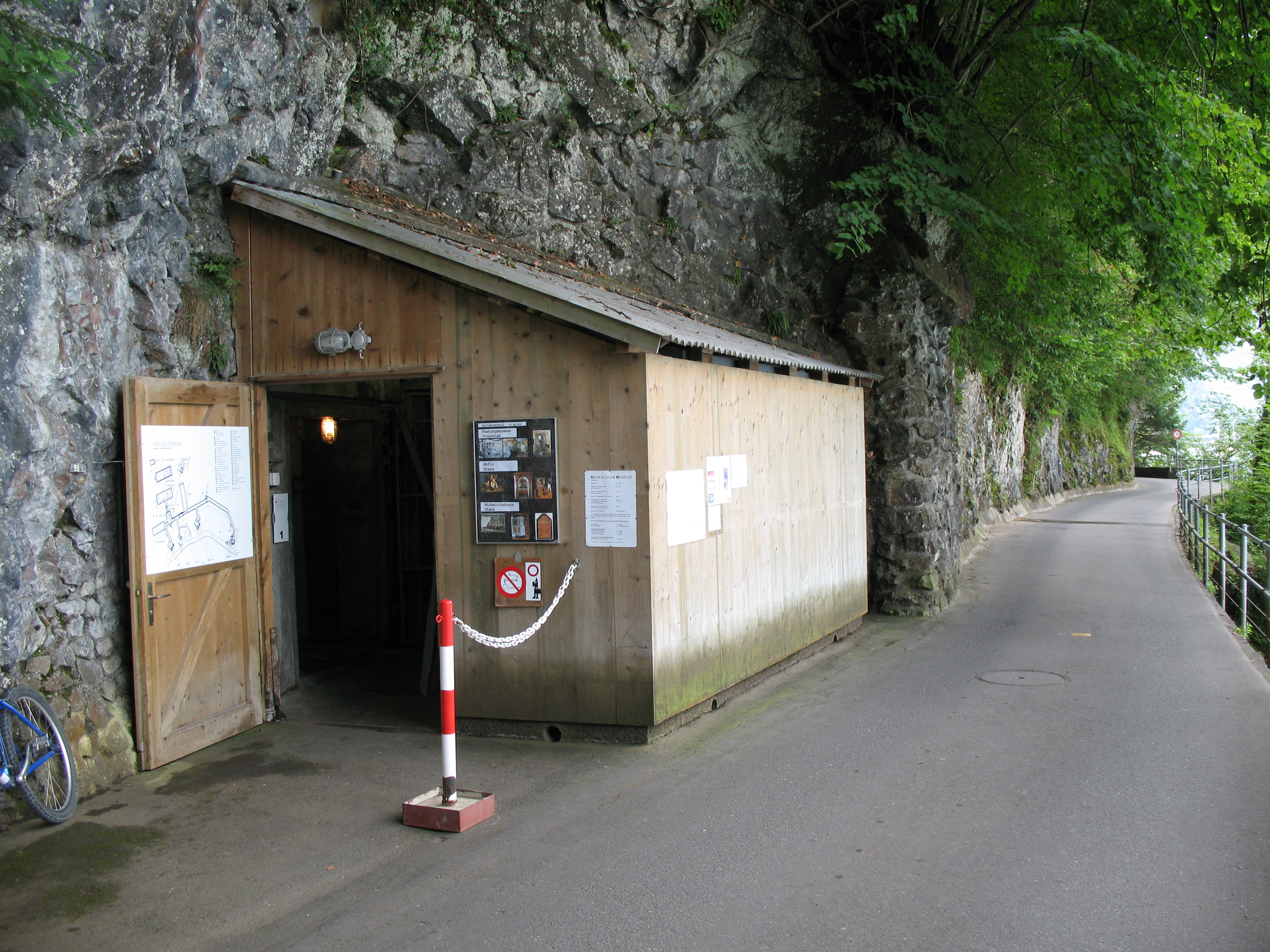 Entrance to Fort Fürigen, Switzerland